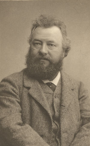 Heinrich Natter (1844–1892), Austrian sculptor and writer